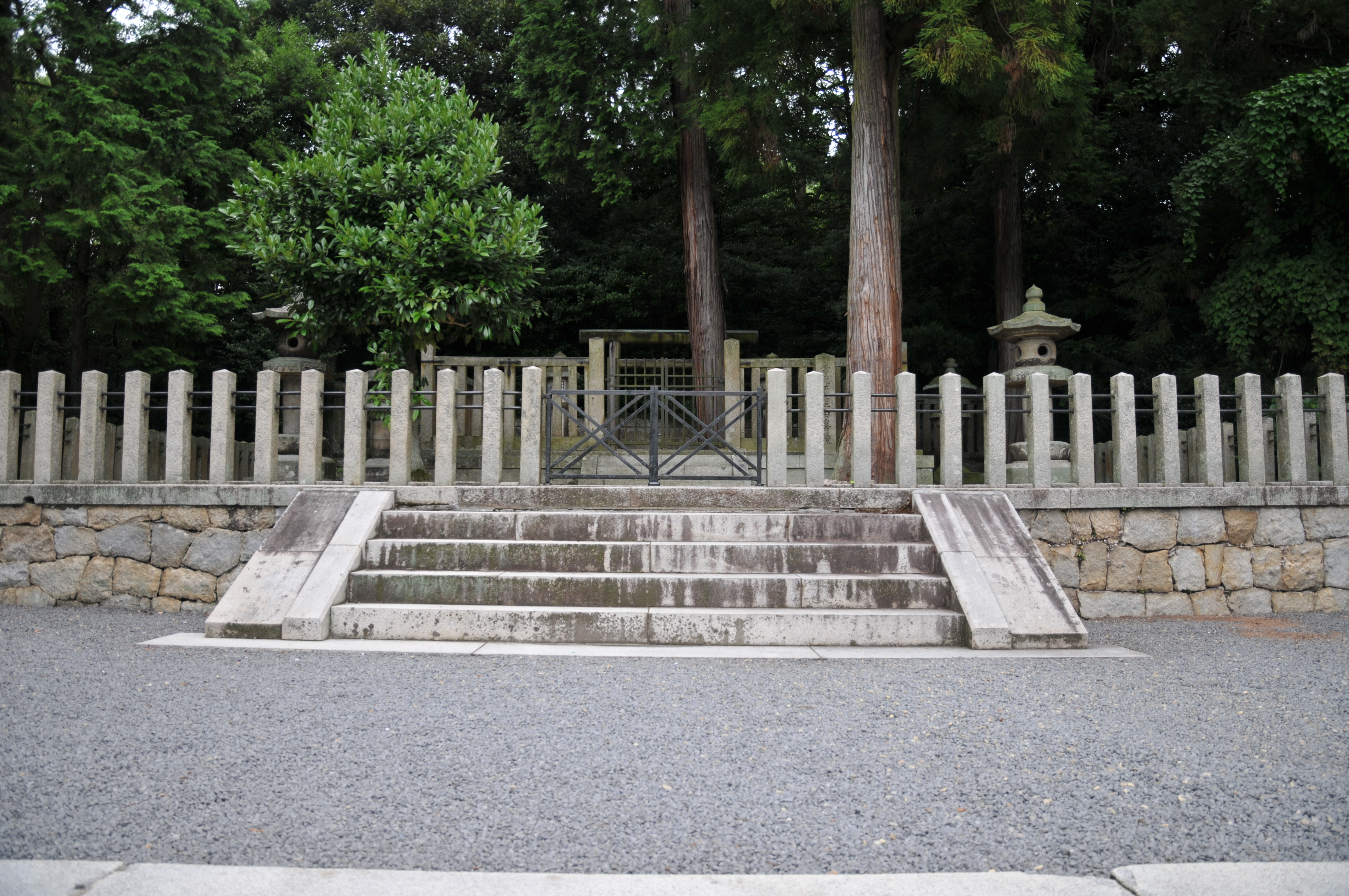 Emperor Sutoku Shiromine-goryō mausoleum